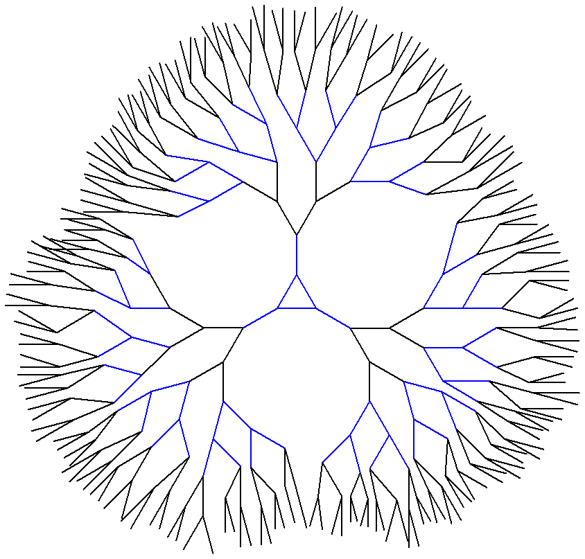 Dendrimer Overview